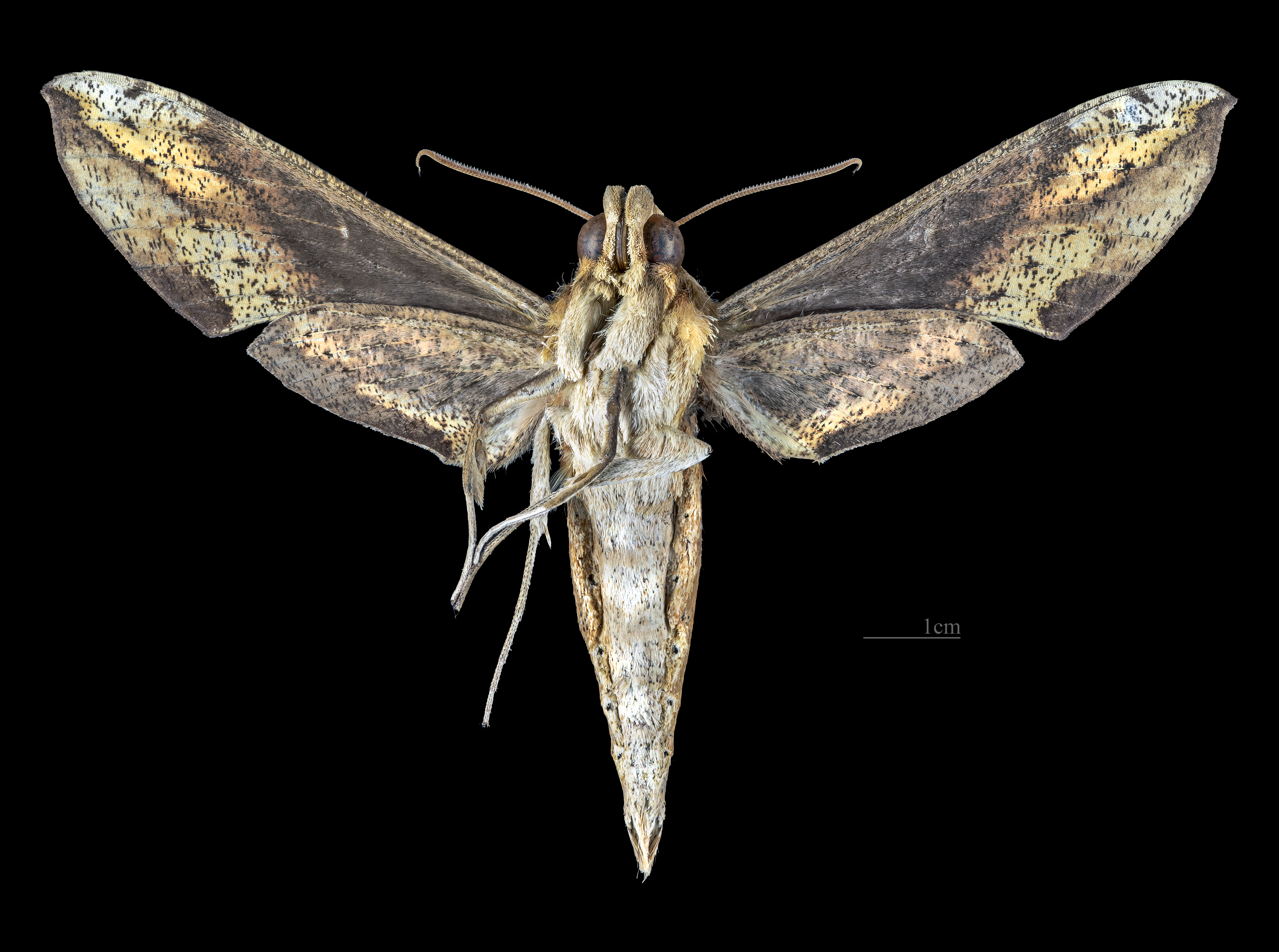 Xylophanes dolius - △ Ventral side Collection of the Mathematician Laurent Schwartz